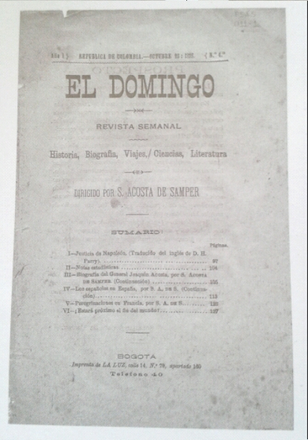 Un ejemplar de El Domingo (1898-1899), tal y como se vendían antes de ser empastados en volúmenes. Esta revista semana trataba temas de "historia, biografía, viajes, ciencias y literatura". Allí publicó biografías "de hombres ilustres de nuestra raza" y se ocupó de "las costumbres de nuestros antepasados y las de la presente generación por medio de novelas históricas y psicológicas". En su proyecto misional aclaró que "nuestras débiles labores sólo tienden al progreso y al bien de nuestra amada Patria".